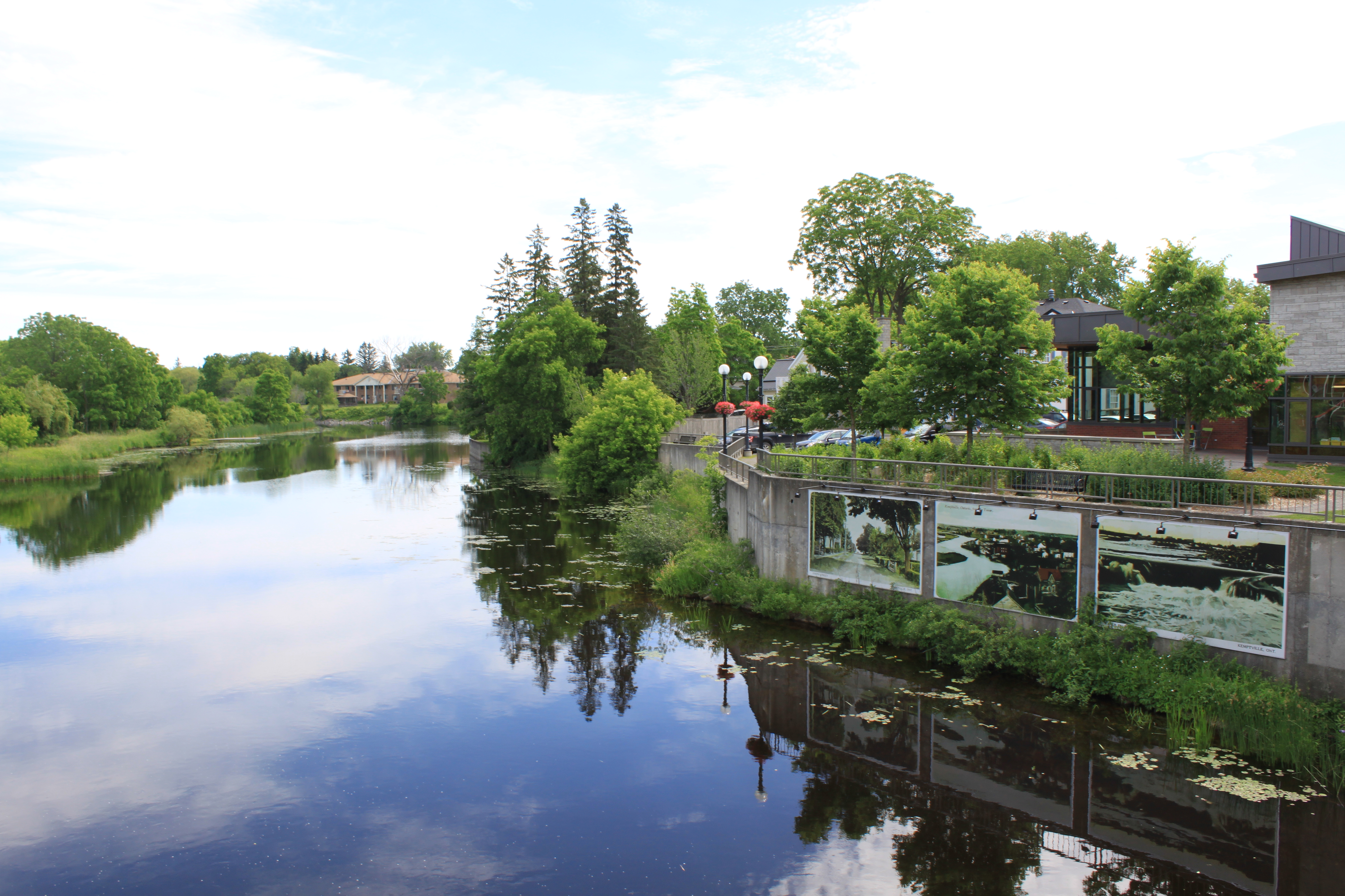 North Grenville, south branch of the Rideau River